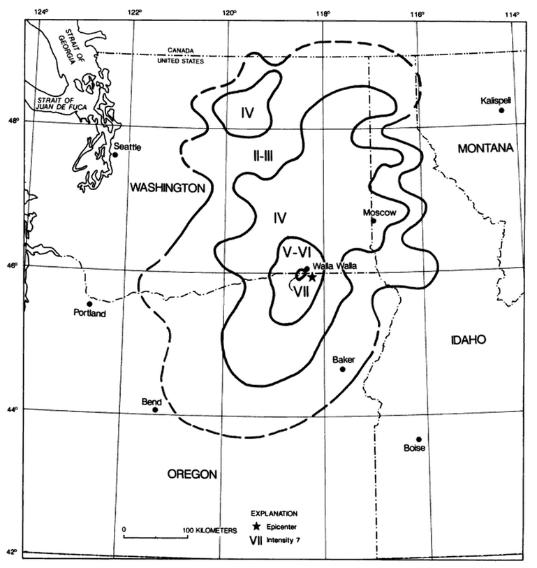 Isoseismal map for the earthquake on July 16, 1936 (July 15 local time) on the Washington-Oregon state line